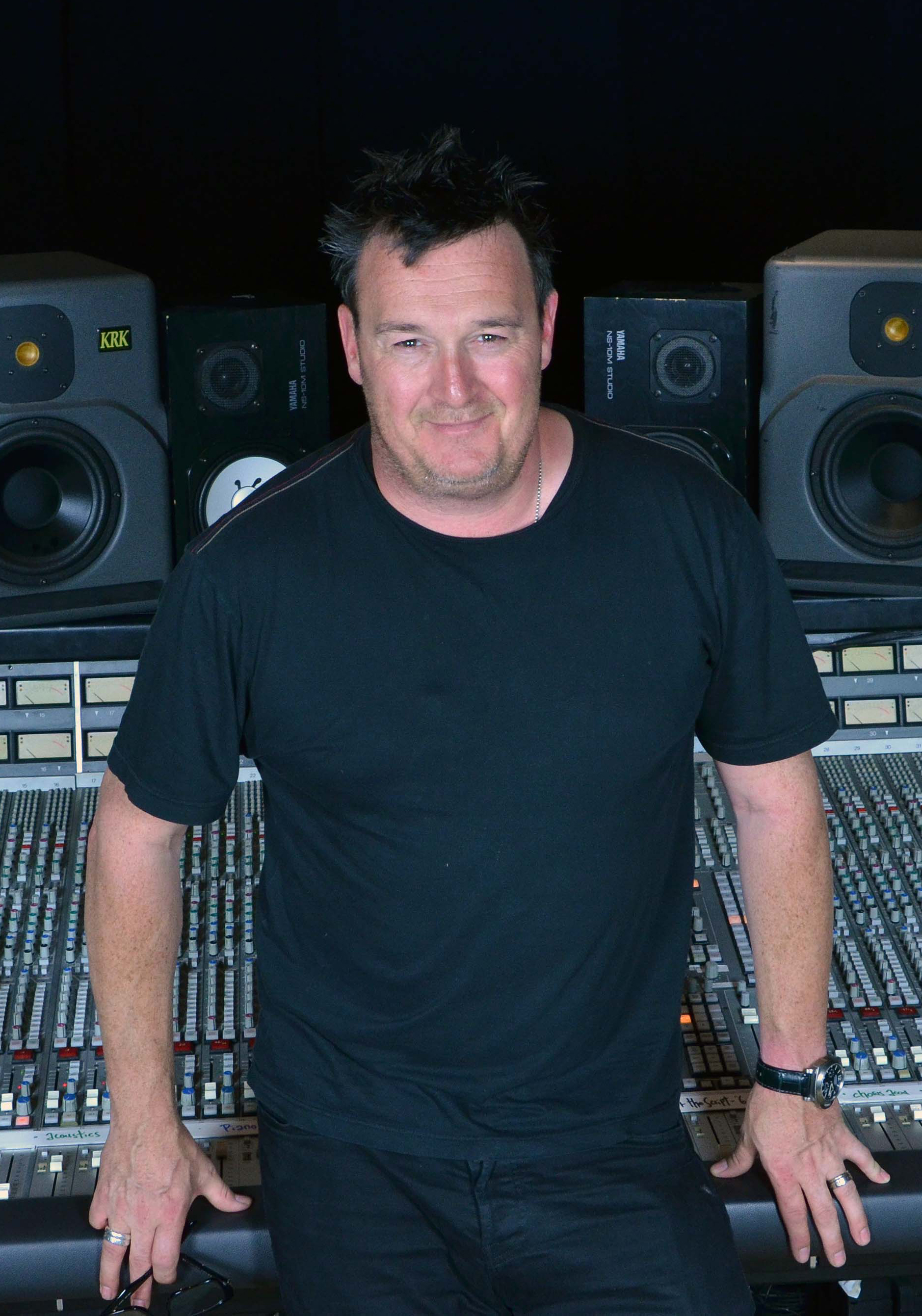 Spike Mix Suite LA